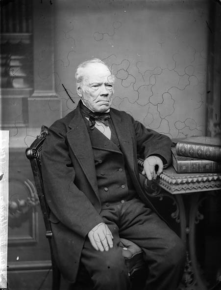 1 negative : glass, wet collodion, b&w ; 21.5 x 16.5 cm.